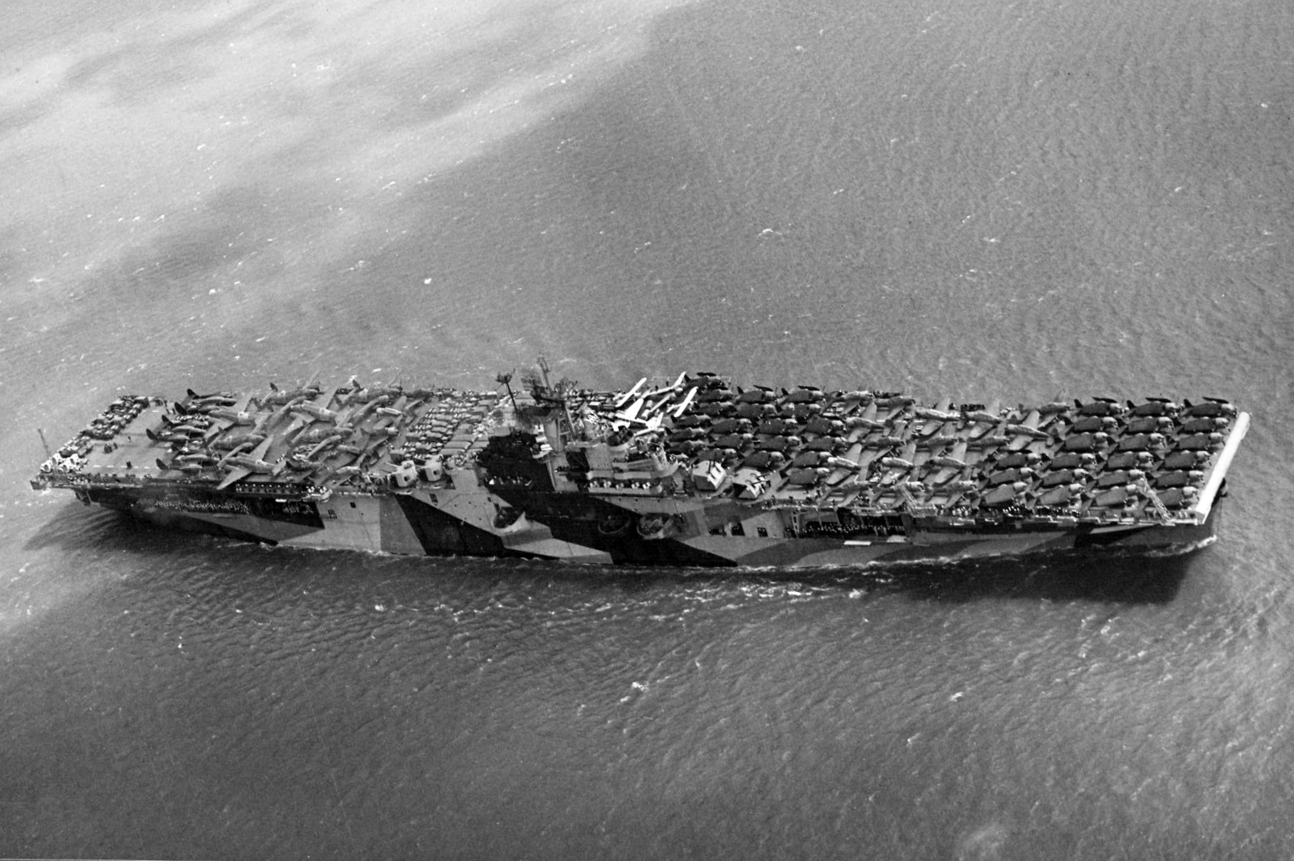 Her deck packed with planes for transport to the Pacific Theater, the U.S. Navy aircraft carrier USS Intrepid (CV-11) is underway off U.S. Naval Shipyard Hunters Point near San Francisco, California (USA), on 9 June 1944. Note her camouflage measure 32, design 3a.